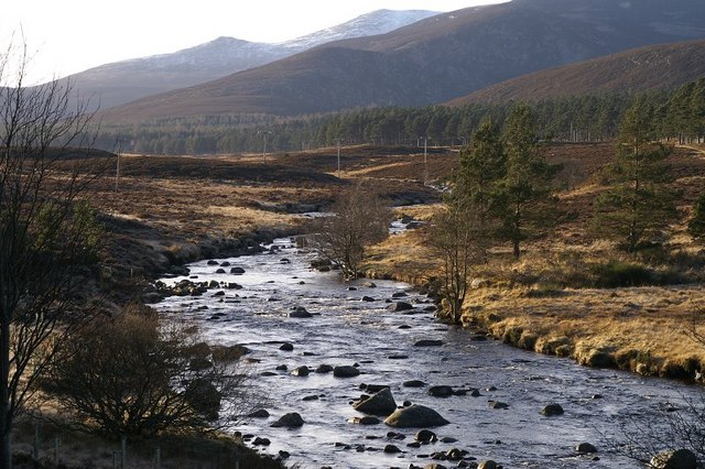 River Muick With the eastern edge of the Lochnagar ridge just visible beyond.